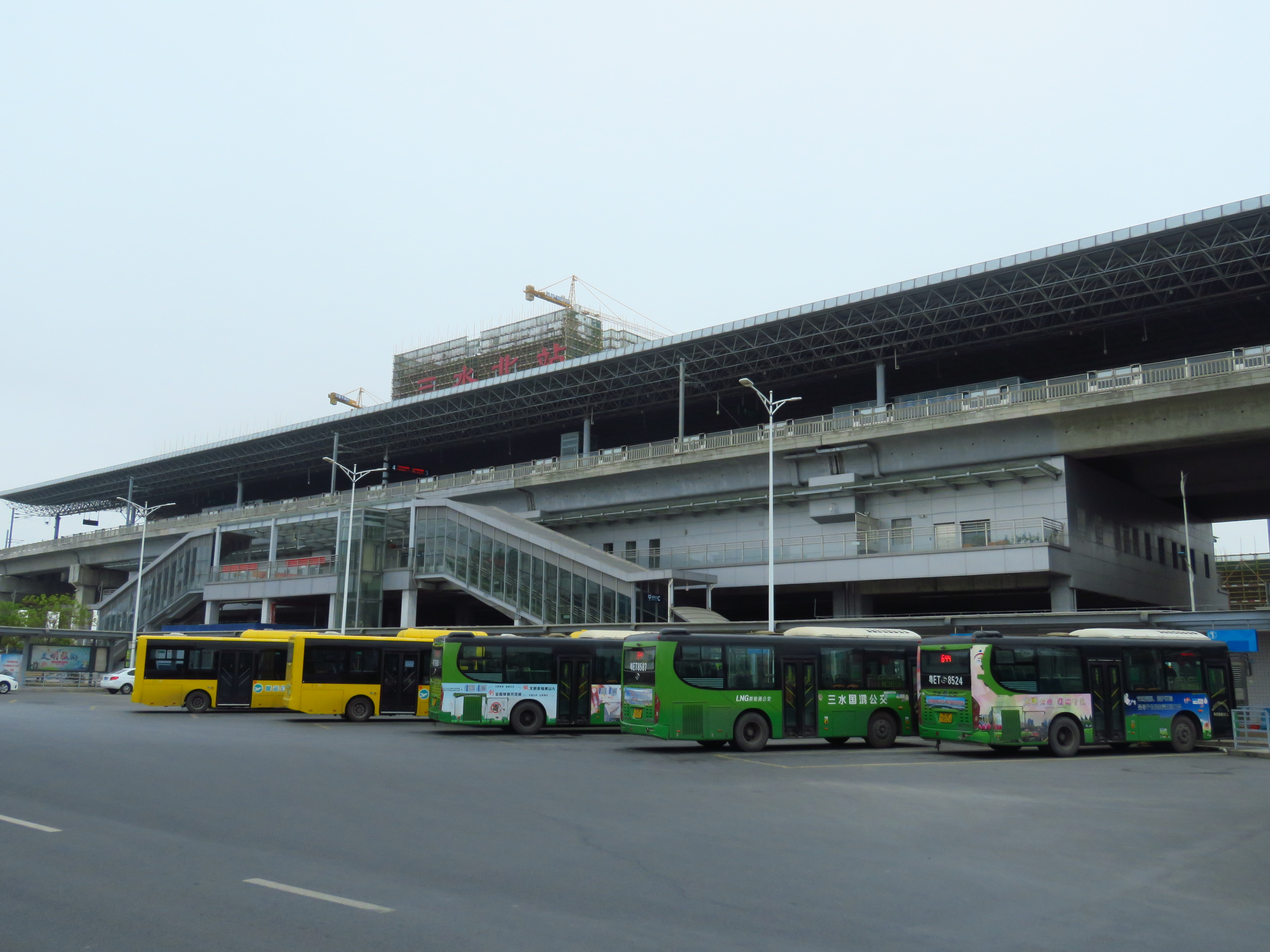 China National Railway Guangzhou-Foshan-Zhaoqing Intercity Rail Sanshuibei Station building